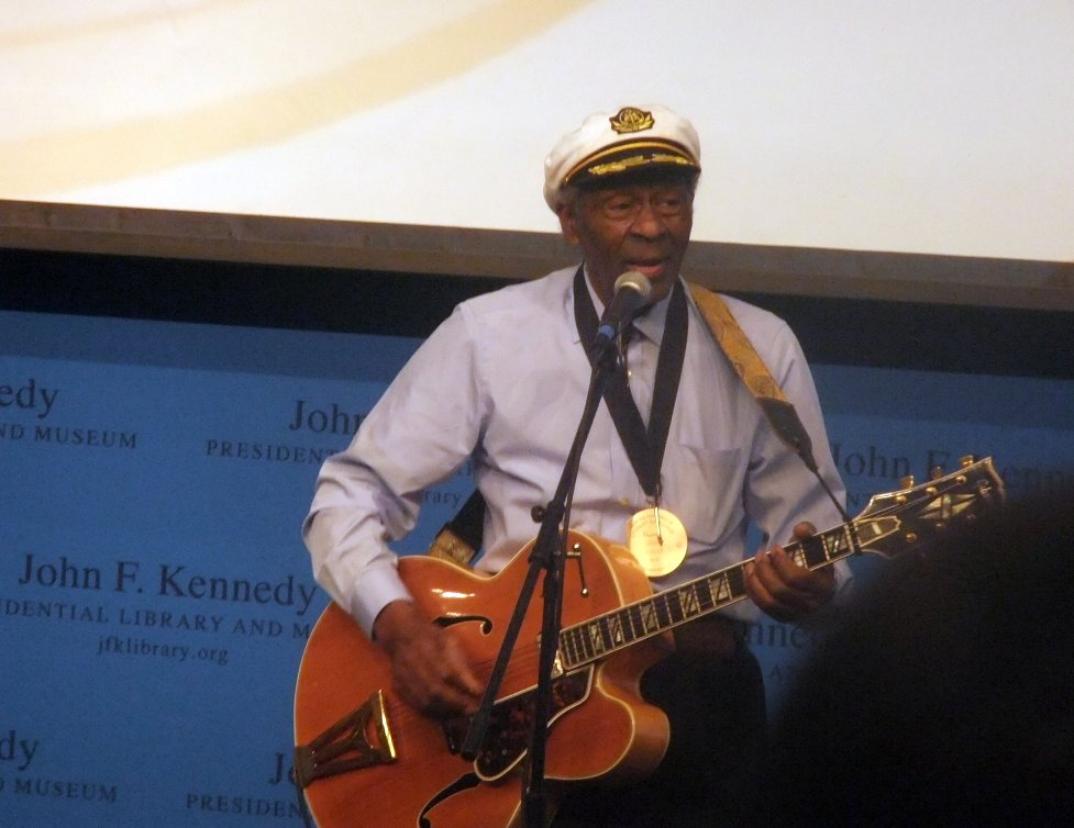 Chuck Berry was honored alongside Leonard Cohen, who were the recipients of the first annual Pen Awards for songwriting excellence-at the JFK Presidential Library, Boston, Mass. on Feb. 26, 2012. Also present were Paul Simon, Keith Richards of the Rolling Stones,Elvis Costello, Shawn Colvin.The event was introduced by Caroline Kennedy.